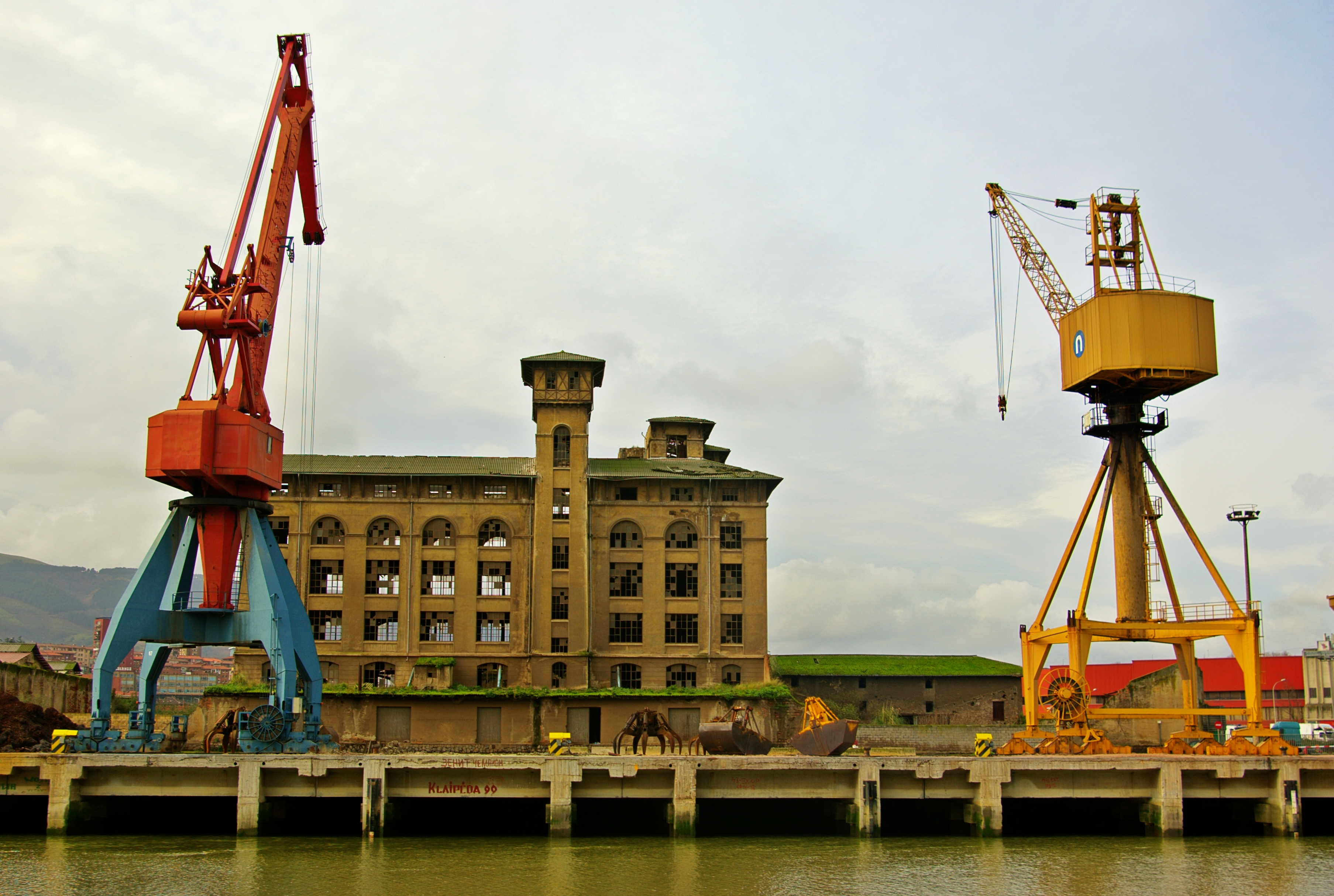 Molinos Vascos building and cranes in Zorrotza, Bilbao. Bizkaia, Basque Country.